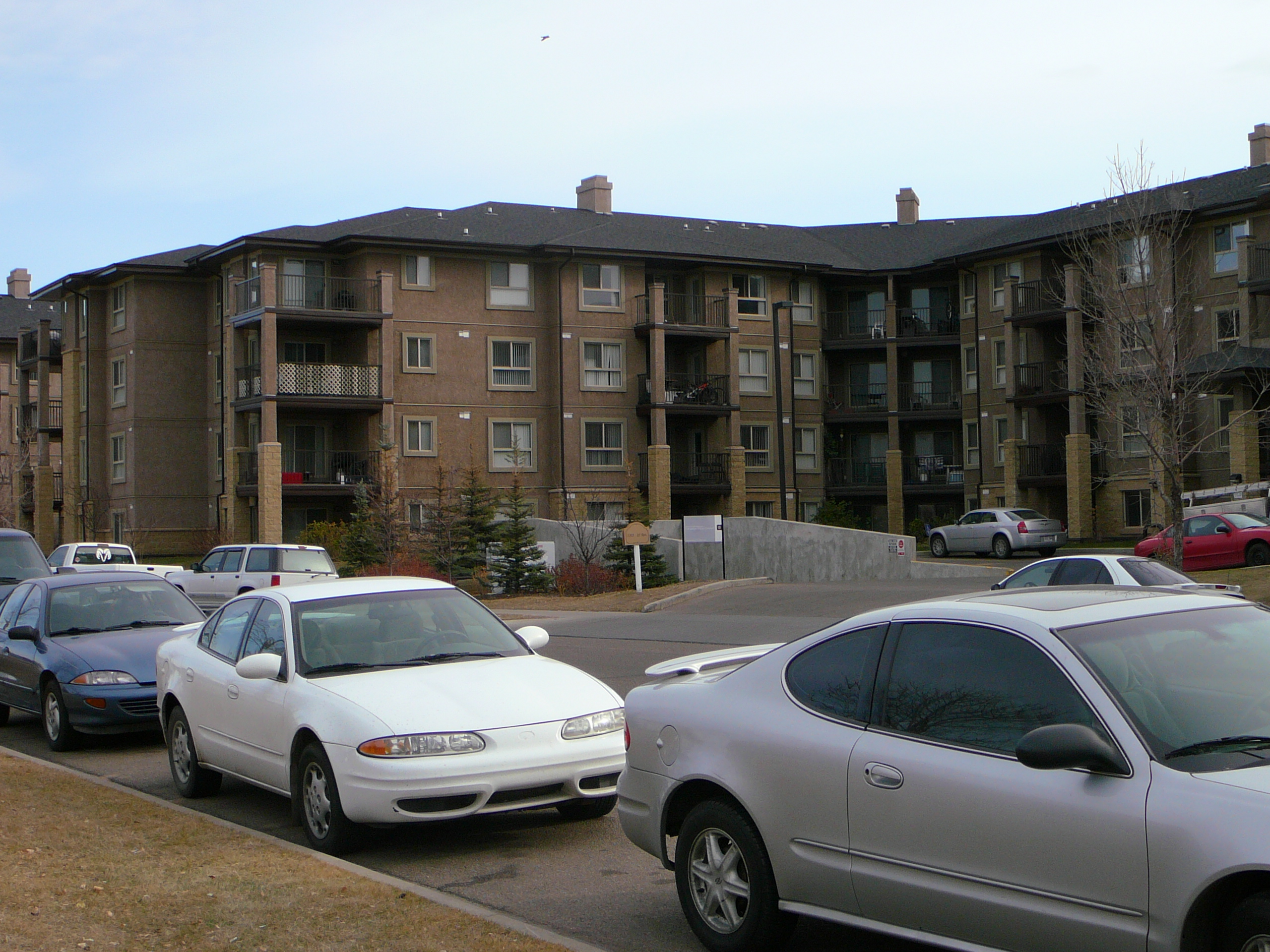 Residential development in the Edmonton, Canada, neighbourhood of Mill Woods Towne Centre